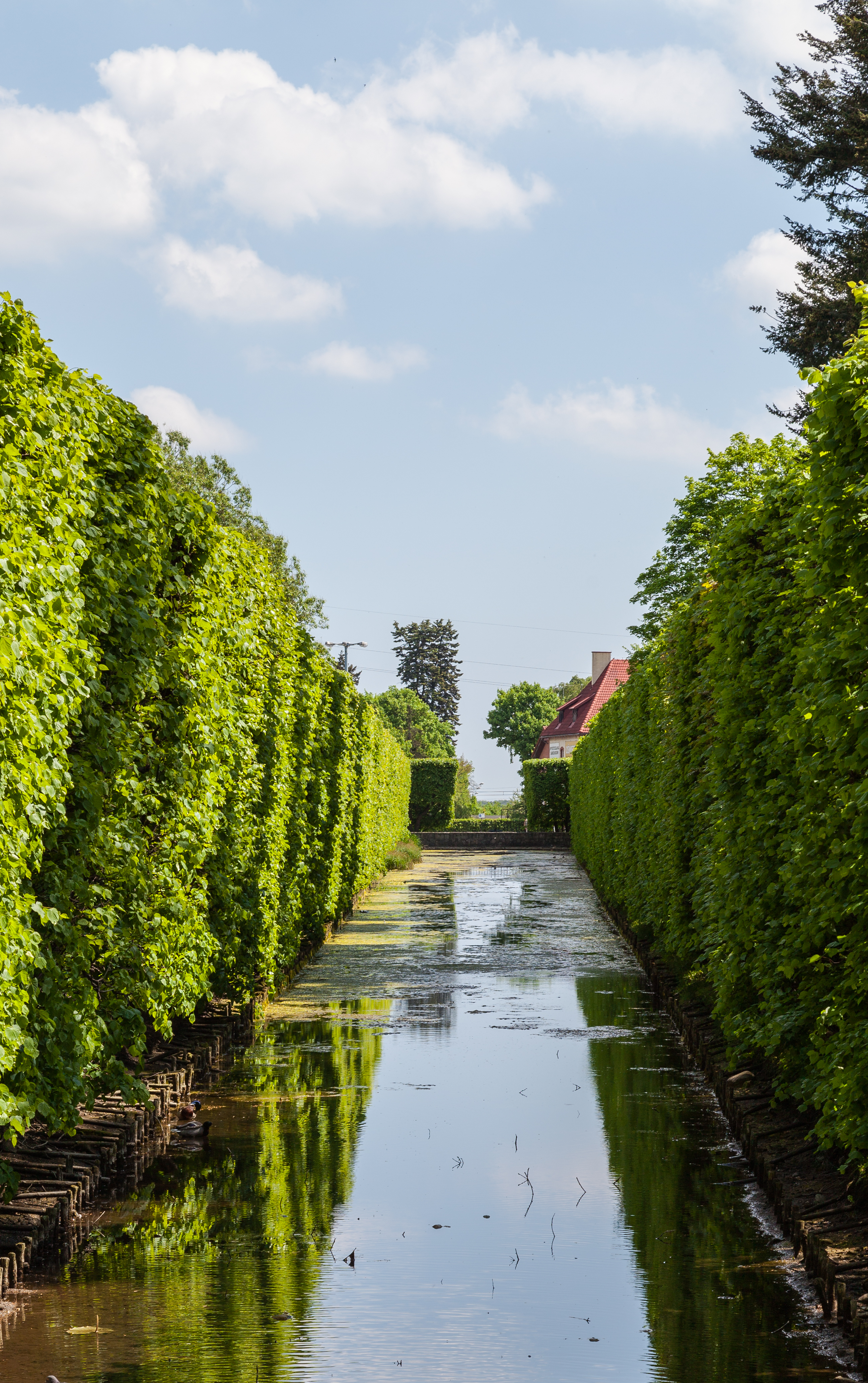 Adam Mickiewicz Park, Oliwa, Gdańsk, Poland